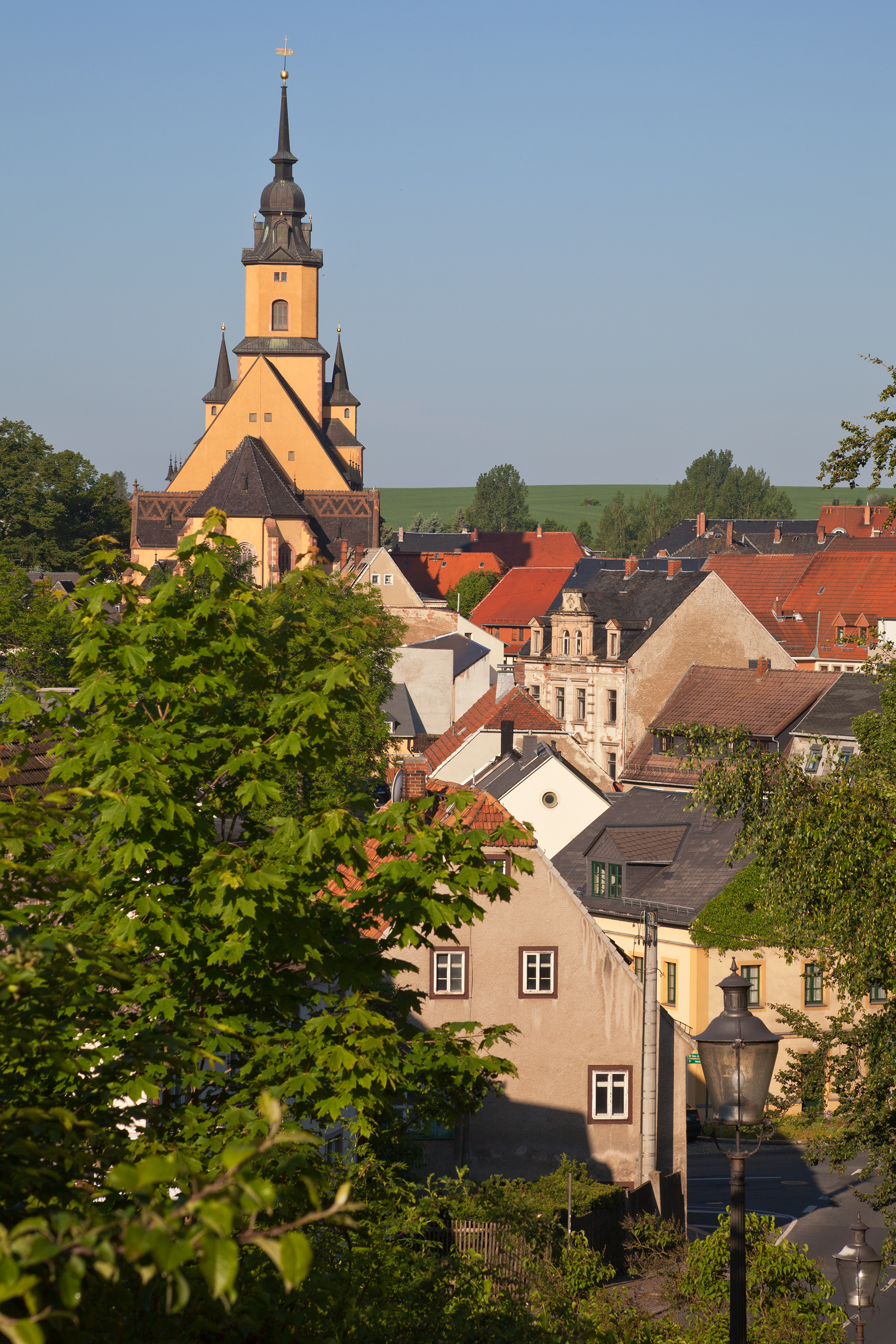 View onto Oederan